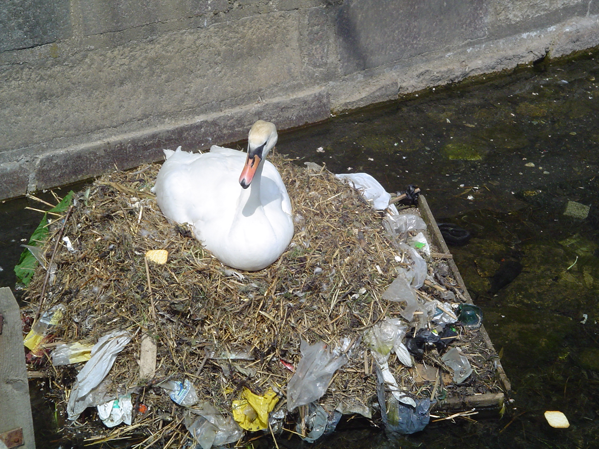 Pollution: A Mute Swan has built a nest using plastic garbage. Photo by me on 28/5-2005